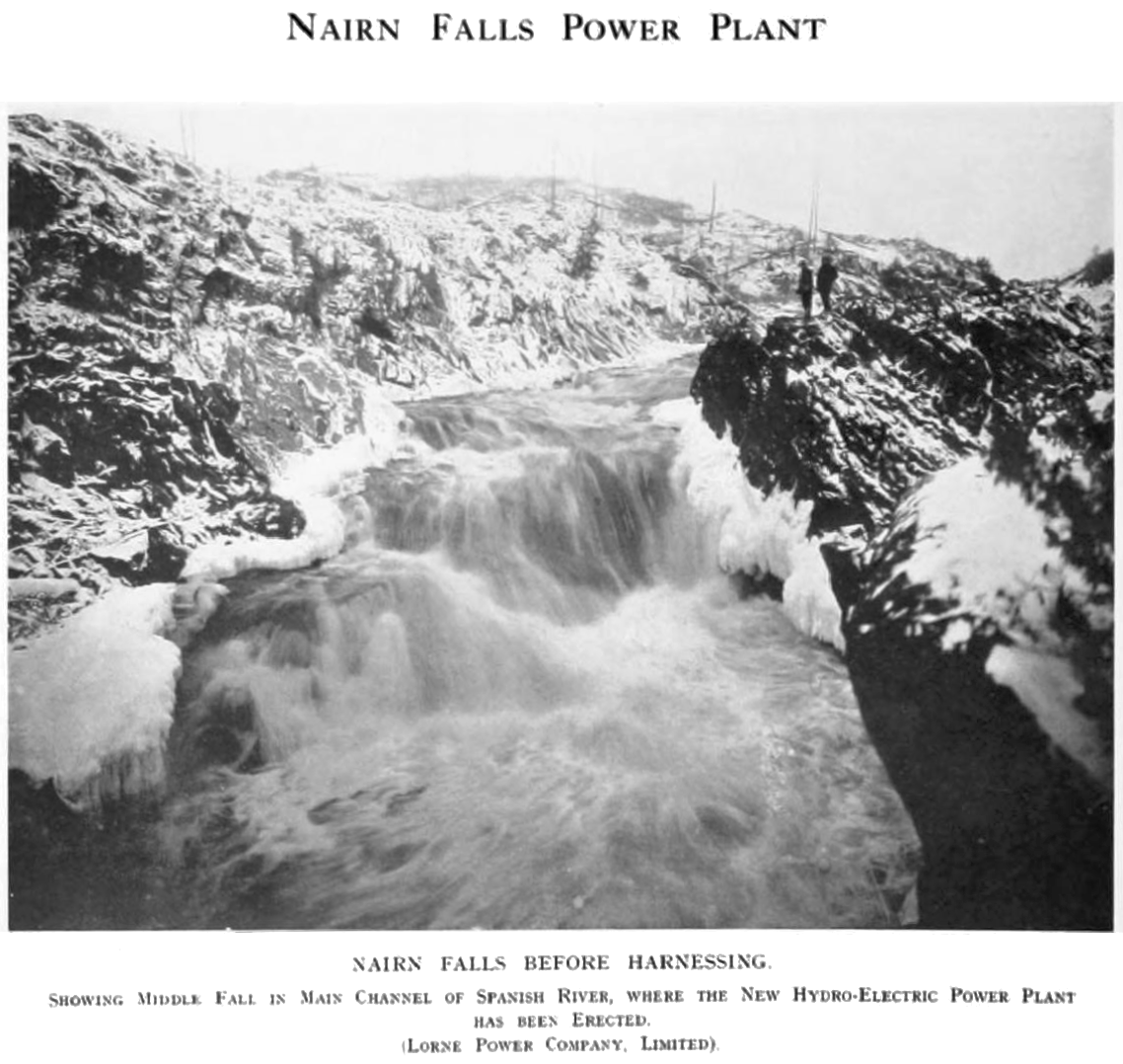 Nairn Falls on the Spanish River, before disapearing on a hydroelectric dam built by the Mond Nickel Company circa 1915.